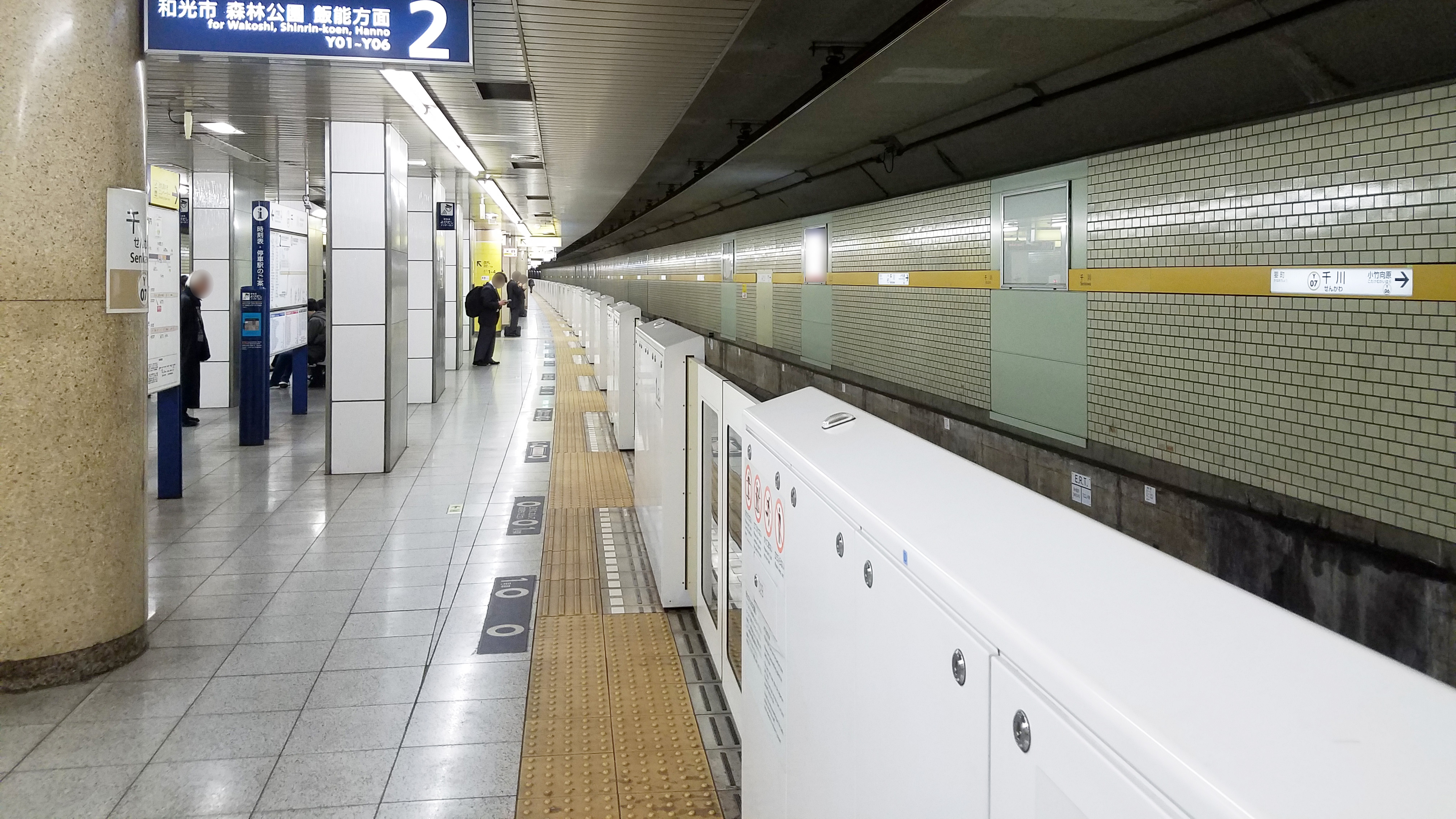 The platform at Senkawa Station on the Tokyo Metro Yūrakuchō Line in Toshima city, Tokyo, Japan